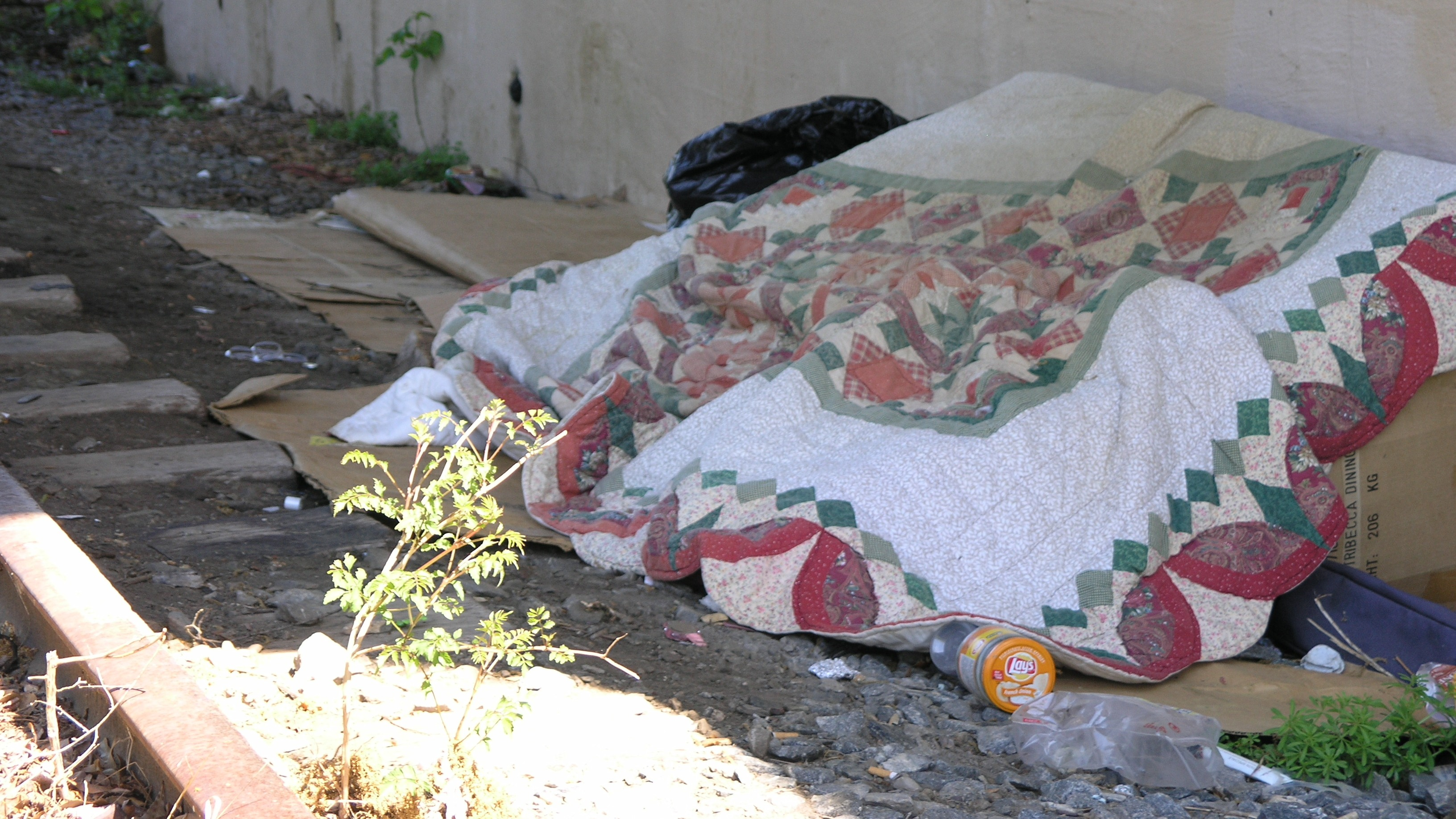 Photo taken in Atlanta area